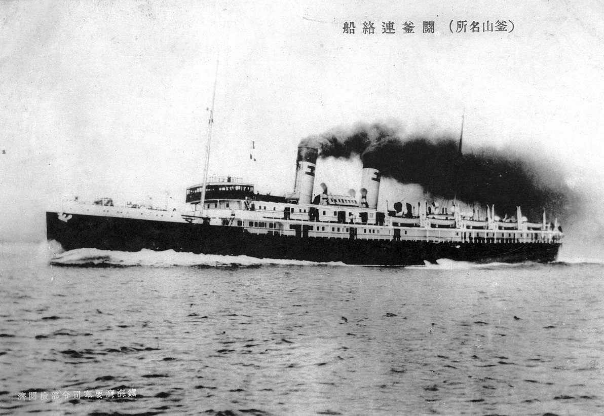 Japanese Government Railways ferry Keifuku Maru (1922-1957)